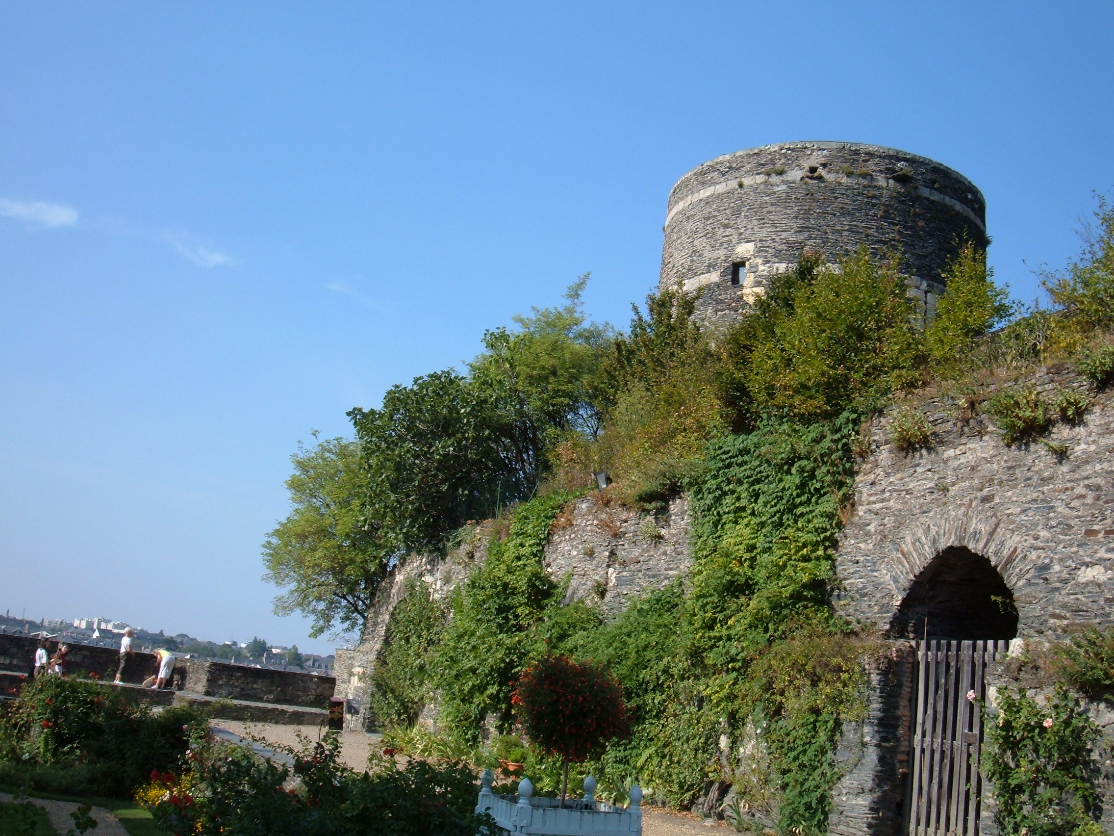 The walls of the Château d'Angers in Angers, France.